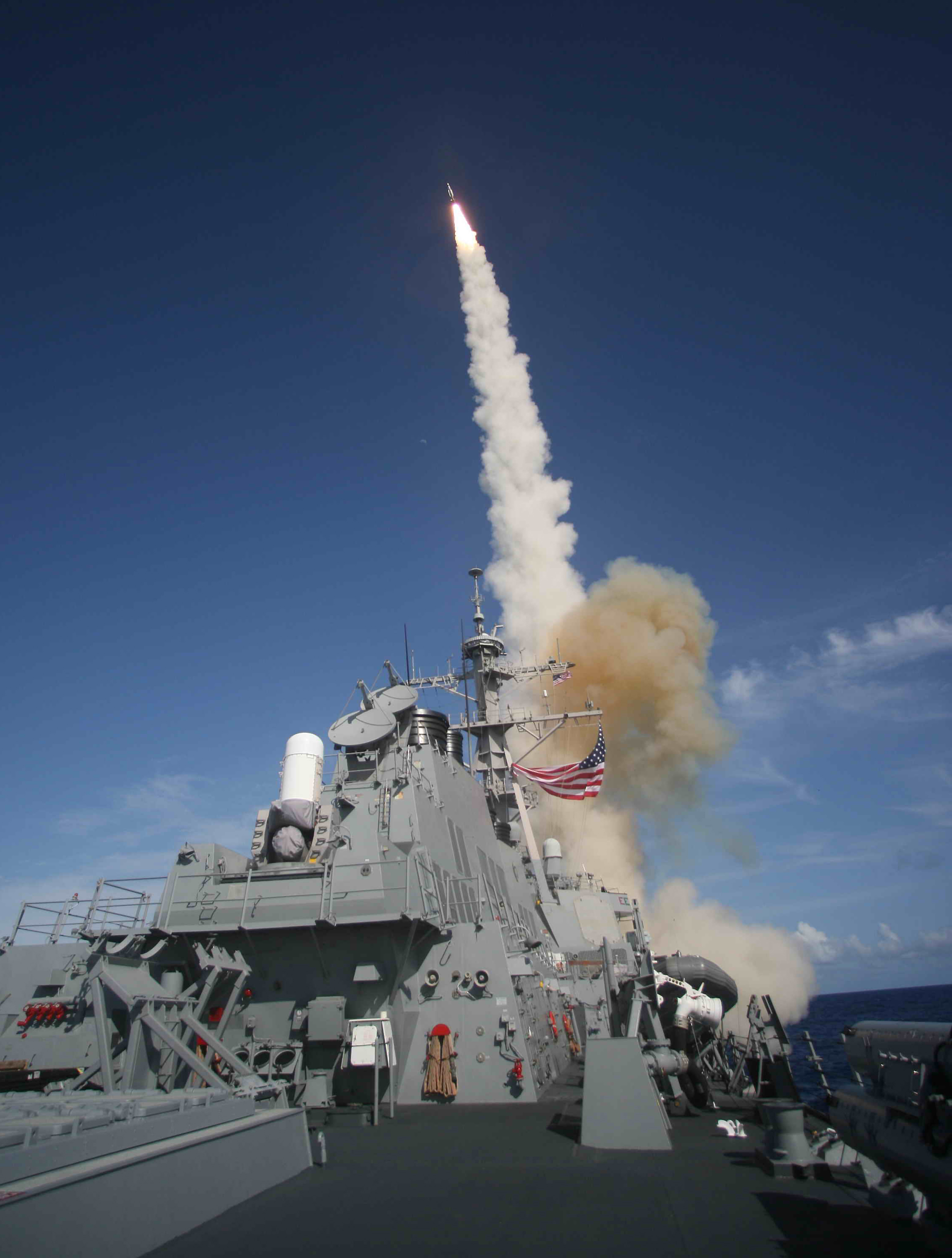 "070622-N-XXXXX-003 PACIFIC OCEAN (June 22, 2007) - A Standard Missile (SM-3) is launched from the Aegis combat system equipped Arleigh Burke class destroyer USS Decatur (DDG 73) during a Missile Defense Agency ballistic missile flight test. Minutes later the SM-3 intercepted a separating ballistic missile threat target, launched from the Pacific Missile Range Facility, Barking Sands, Kauai, Hawaii. It was the first time such a test was conducted from a ballistic missile defense equipped-U.S. Navy destroyer. The previous flight tests were conducted from U.S. Navy cruisers. The maritime capability is designed to intercept short to intermediate-range ballistic missile threats in the midcourse phase of flight. USS Decatur is one of 18 U.S. Navy ships (three cruisers and 15 destroyers) that will be identically equipped, by early 2009, with the ballistic missile defense capabilities of conducting long-range surveillance/tracking and launching the SM-3 missile."